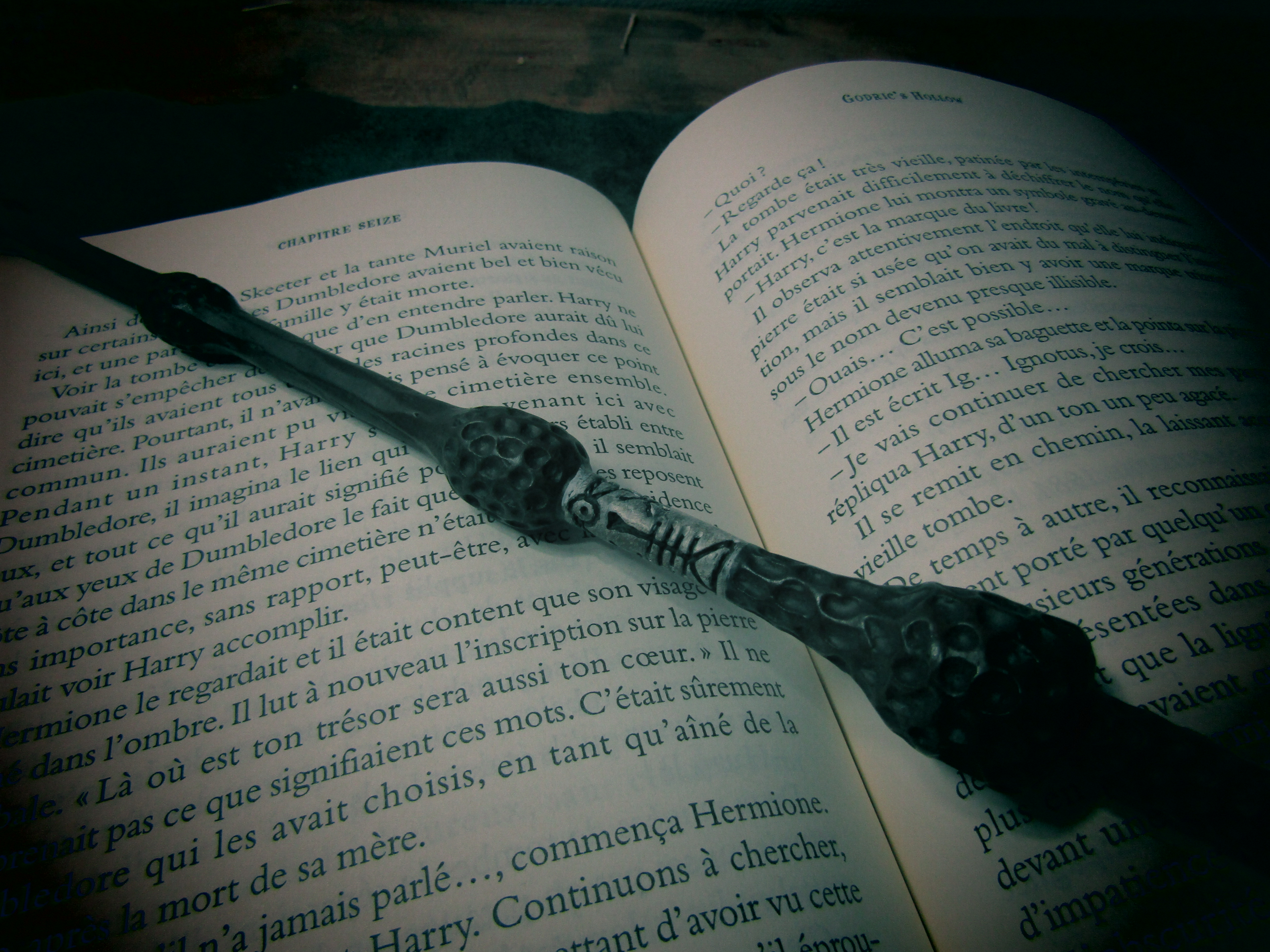 Double page of Harry Potter 7 (in french) with replica of the elder wand.